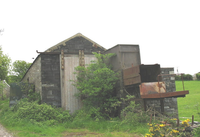 Old Engine Shed at the Terminus of the Dinorwig Quarry Line